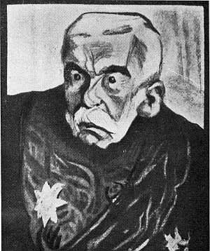 Zinovy Grzhebin, "Durnovo, 1906